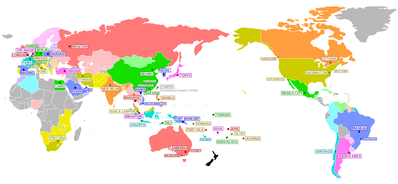 Map of the world showing the location and jurisdiction of New Zealand embassies